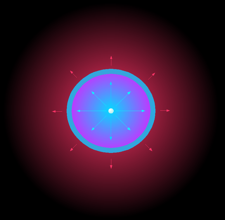 Planetary Nebula Formation. After the ejection of the envelope (slow stellar wind, red arrows) of the AGB (red giant, Asymptotic Giant Branch) star (through thermal pulsing or some other mechanism), the bare core of the AGB star (hot white dwarf, center) is revealed. The temperature of the core is over 100,000 Kelvins initially and is an intense source of Ultraviolet radiation and a high-speed stream of particles (fast stellar wind, light blue arrows). Fast wind moves away from the star at speeds of up to several thousand kilometers per second and easily overtake the ejected envelope of the AGB star. Fast wind compresses the ejected envelope of the star into a thin dense shell (cyan) The UV radiation strongly ionizes the gas in the shell, ionized shell emits visible light